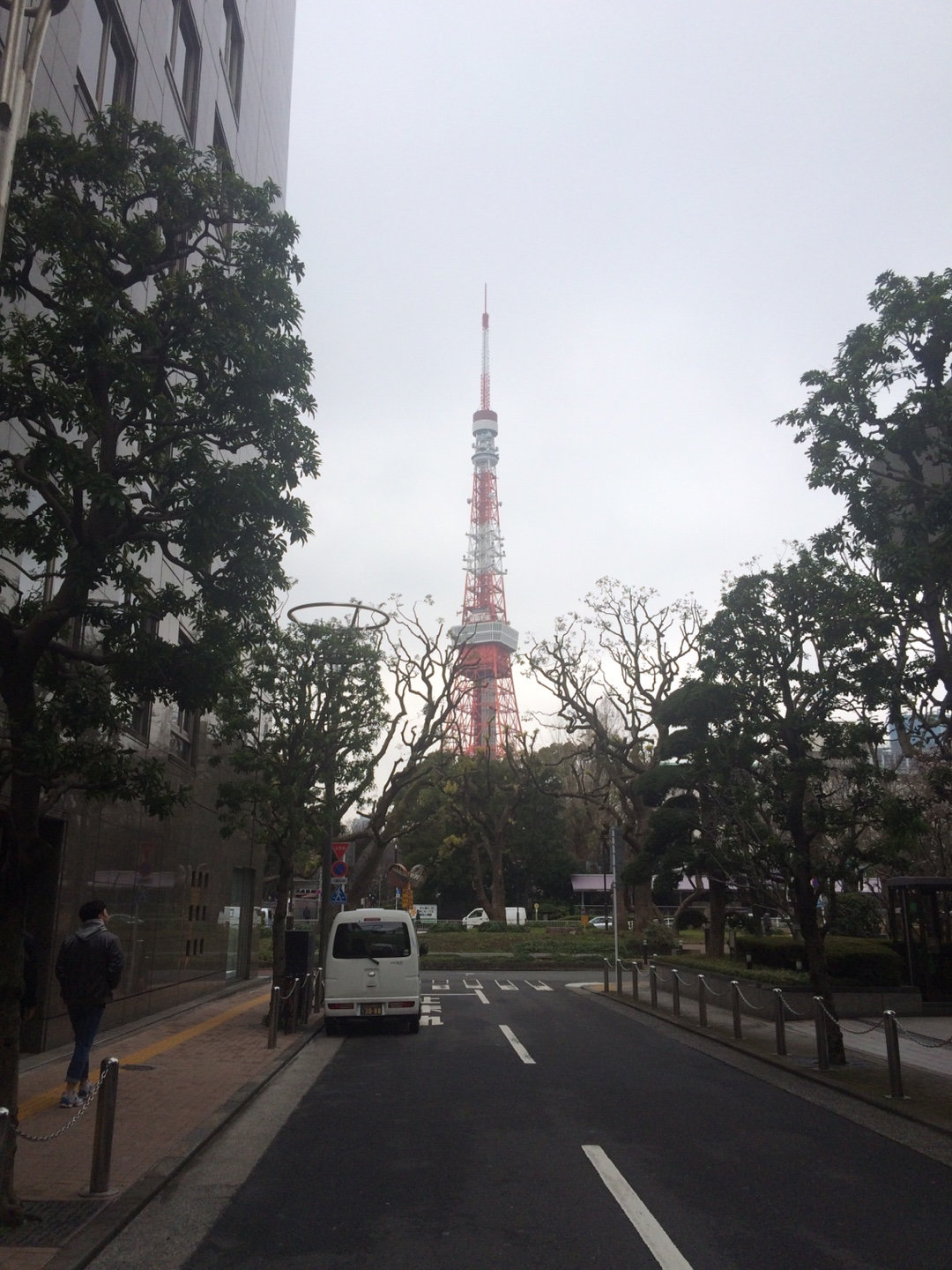 Tokyo tower as seen from a street in front of Minato-ku Office